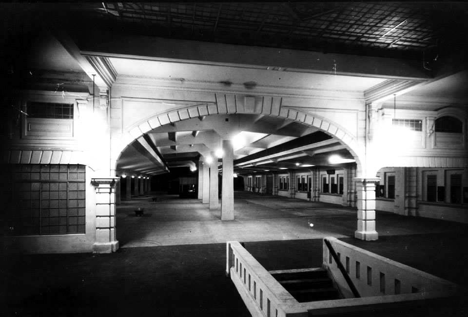 Interior of the former train station (previously managed by the Province of Santa Fe Railway) during the process of being refurbished to become the bus terminal of the city. The image depicts the entrance to the interior room, where the ticket offices were located. That same year the station would be opened to public as a bus terminal.